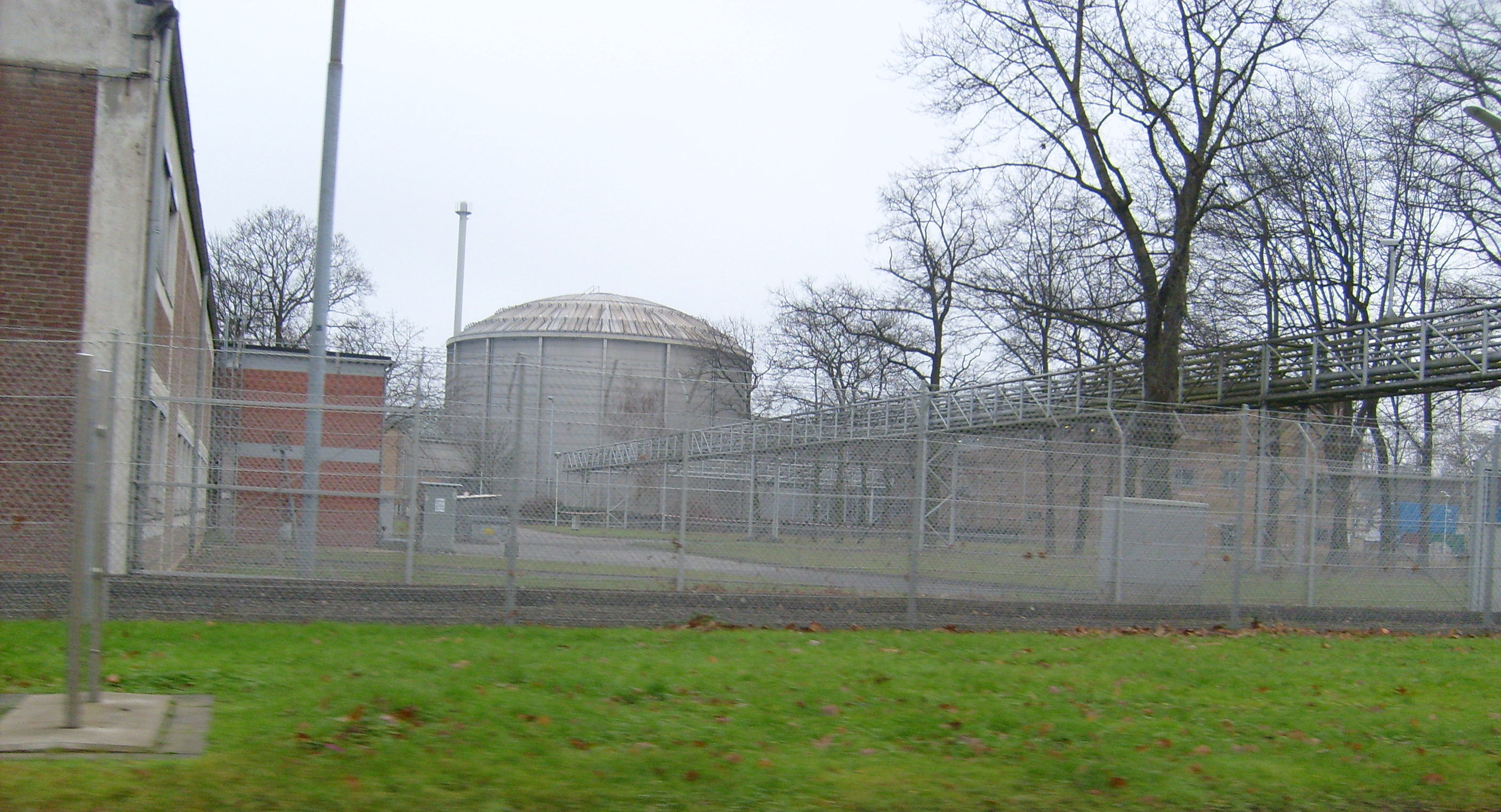 Research reactor Jülich 2 (DIDO)